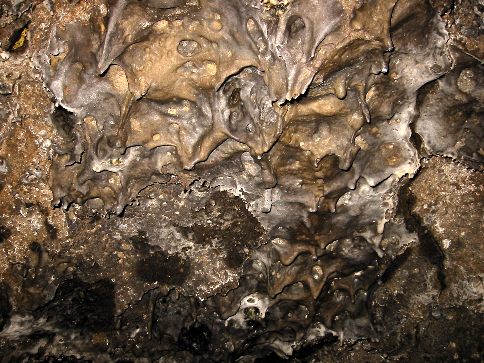 Lavacicles in Mushpot Cave under Visitors Center, Lava Beds National Monument, California, USA (Lat/Long: 41.7137°N, 121.5089°W (WGS84/NAD83) USGS SCHONCHIN BUTTE Quad [1]). Altitude: 4740 feet. Lavacicles on the ceiling of a lava tube are left as the level of lava in the tube retreats and the viscous lava on the ceiling drips as it cools.